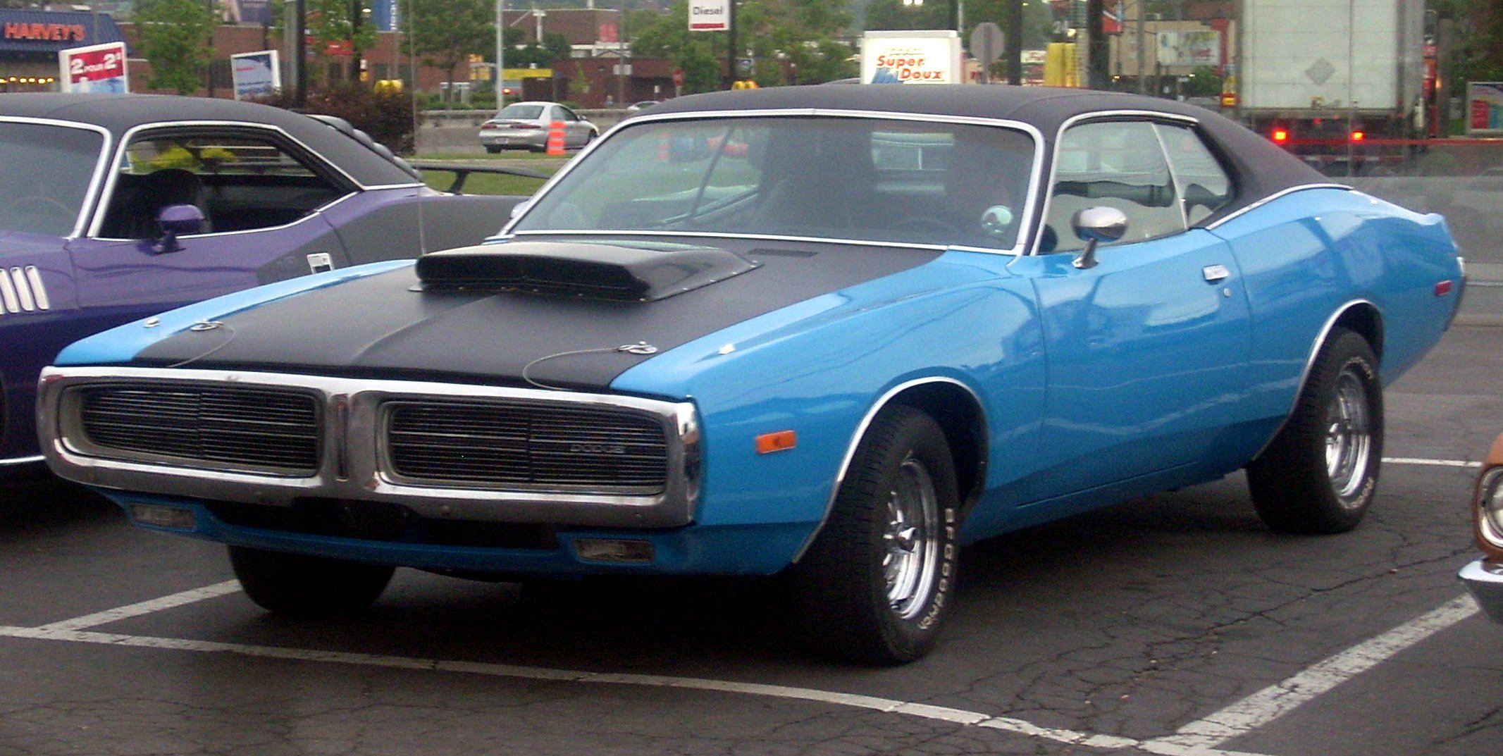 Dodge Charger photographed in Montreal, Quebec, Canada at Gibeau Orange Julep.